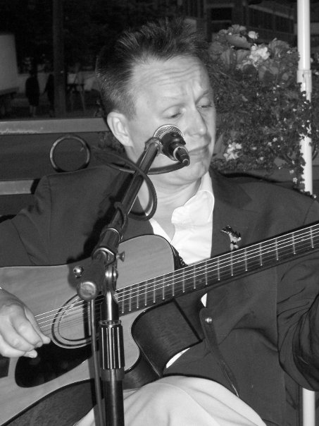 Big Rude Jake playing guitar and singing in Liberty Village, Toronto, Ontario, Canada (He's actually quite polite.)